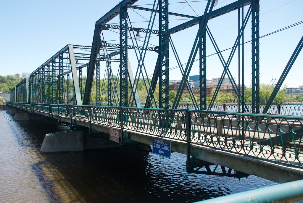 Looking along the length of the Sixth Street Bridge in Grand Rapids, Michigan.